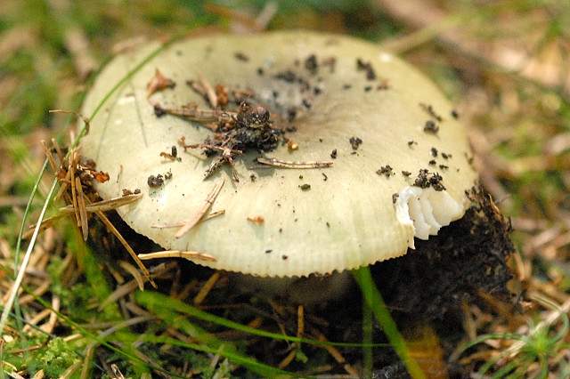 Russula aeruginea from Commanster, Belgium. The determination of the species shown in this picture has been verified.